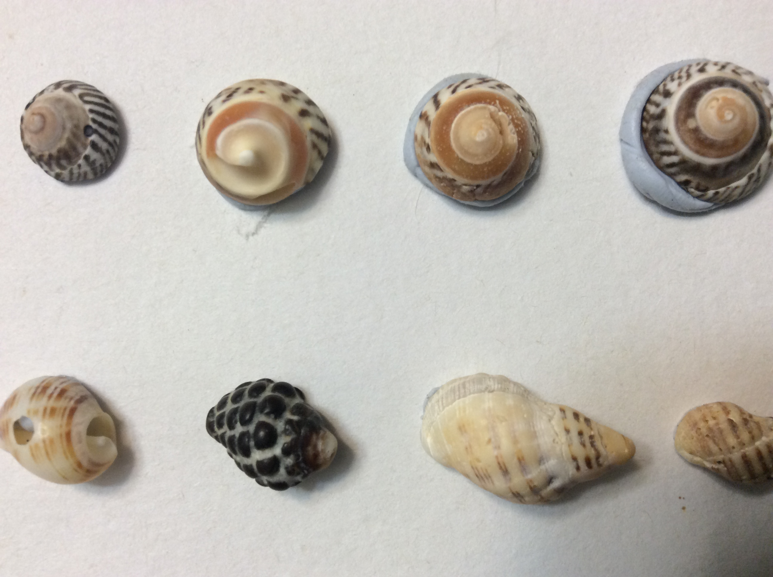 These are some different shells that vary in size, form and pattern combination.